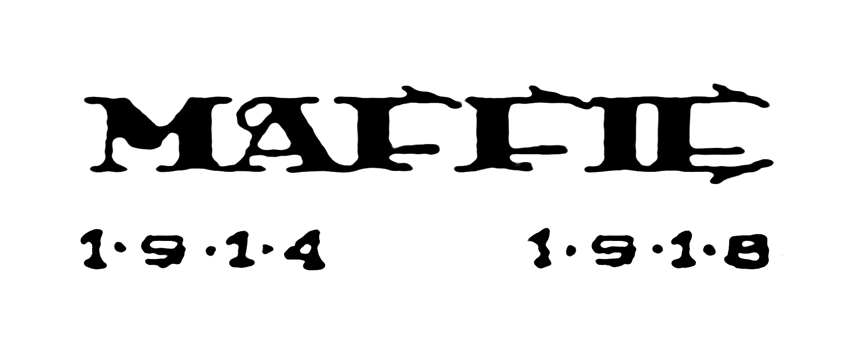 Logo of The Maffia, a domestic resistance organisation. Version used between 1918 and 1920. The logo was used on the photographic tablo of all participants.